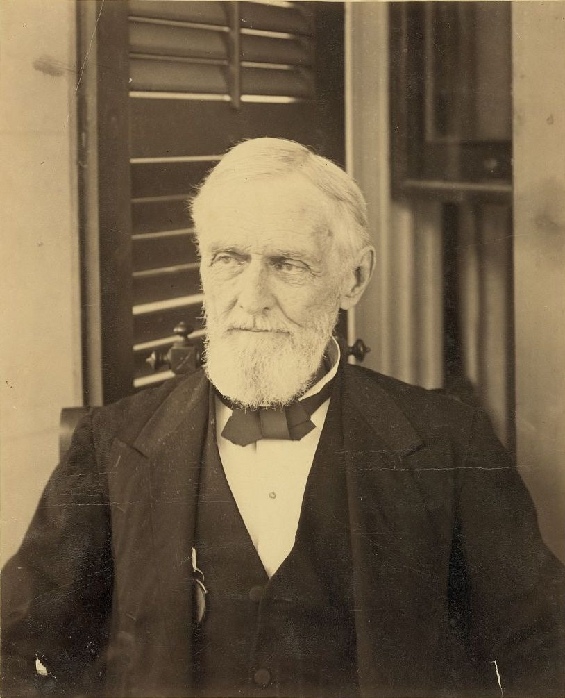 Jefferson Davis (1808-1889) was the president of the Confederate States of America.